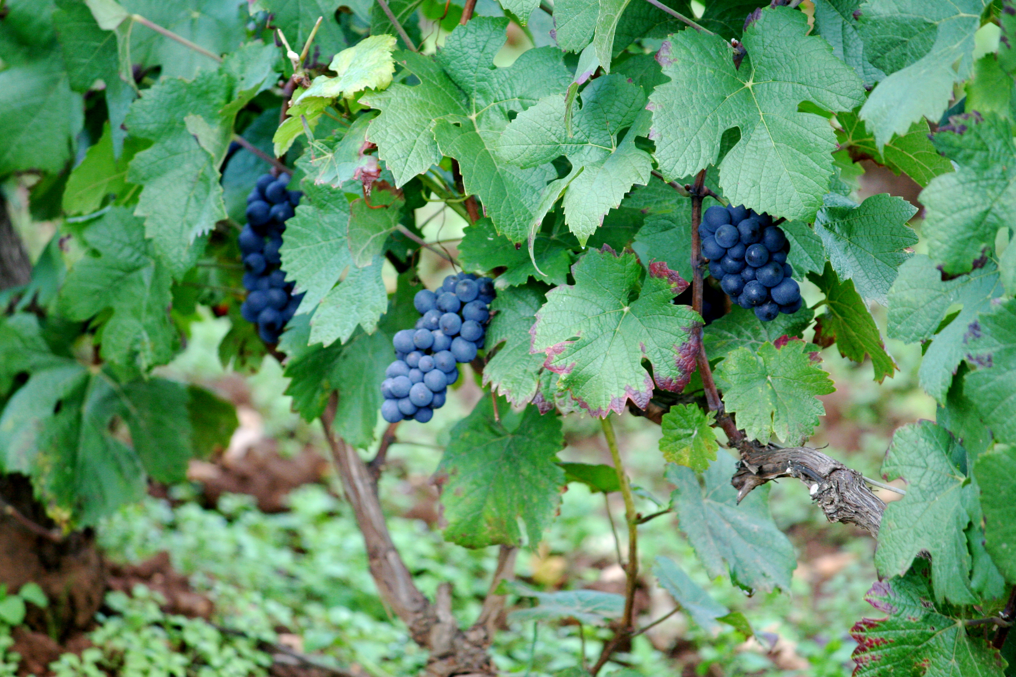 Pinot noir grapes growing in Burgundy.